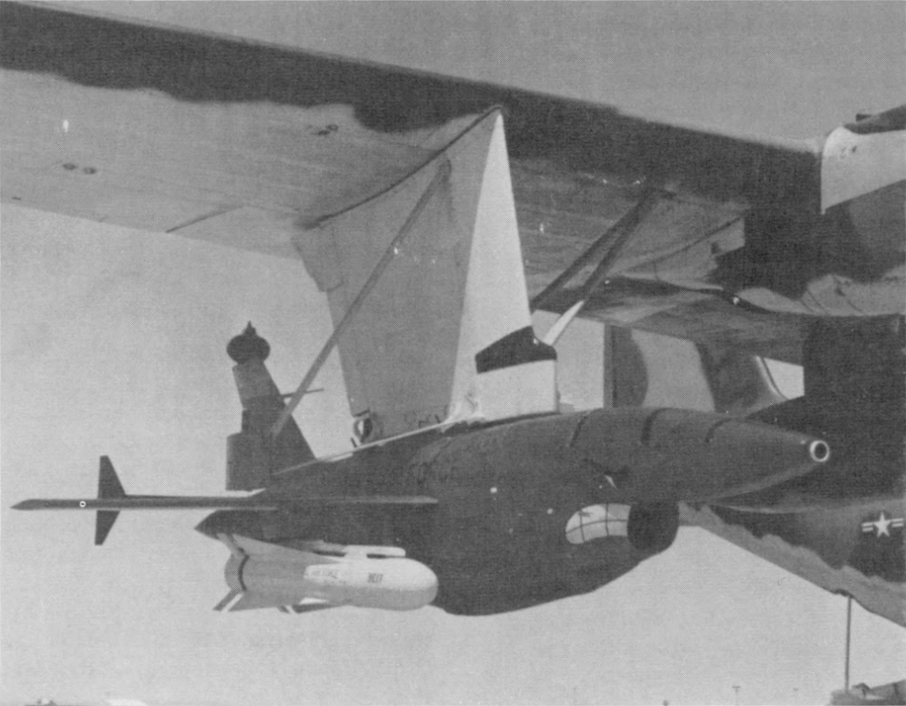 BGM34A Remotely Piloted Vehicle with Maverick missile on wing pylon of a DC130E launch aircraft